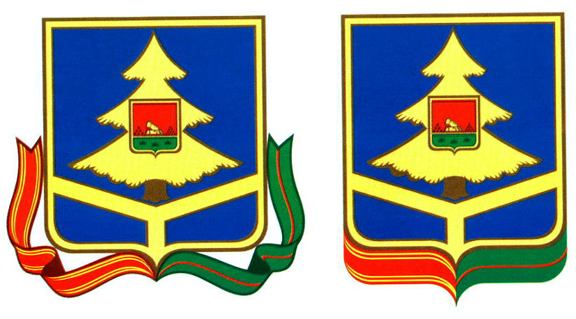 Lesser arms of the Bryansk Oblast